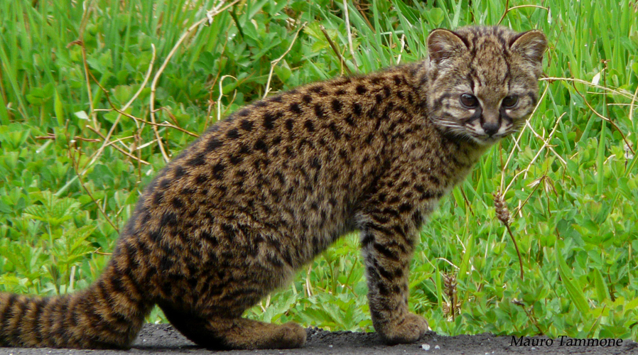 Leopardus guigna in Anticura (Parque Nacional Puyehue, X Region, Chile)